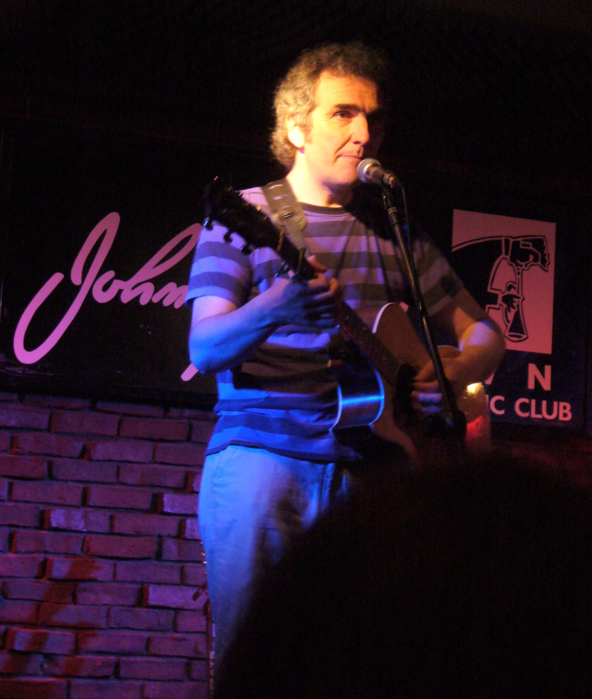 Jez Lowe performing at Johnny D's Uptown Restaurant and Music Club, Boston, MA on June 28, 2011.